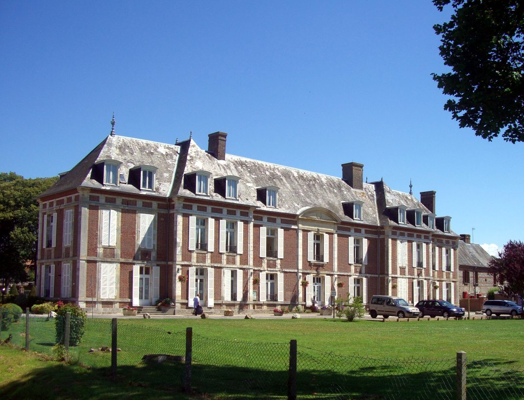 17th century mansion in Criel-sur-Mer built by Anne Marie Louise d'Orléans, la Grande Mademoiselle